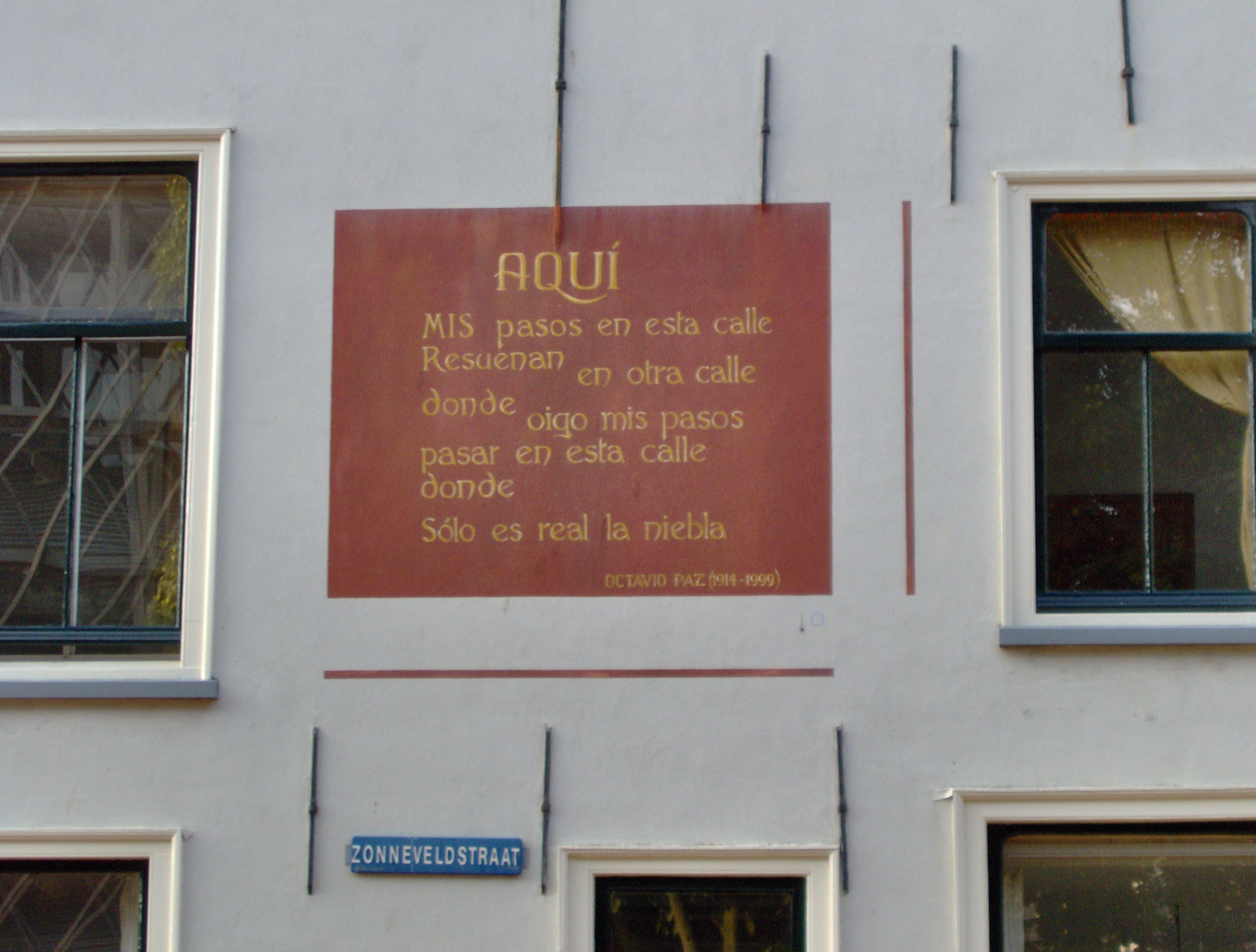 The poem Aqui (Here) of the Mexican poet Octavio Paz on the front wall of the building at the Zonneveldstraat 18, Leiden, The Netherlands